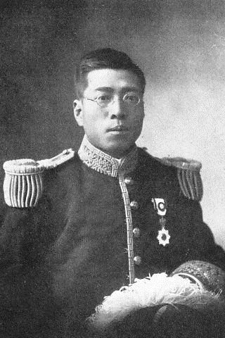 Nagayoshi Hirano